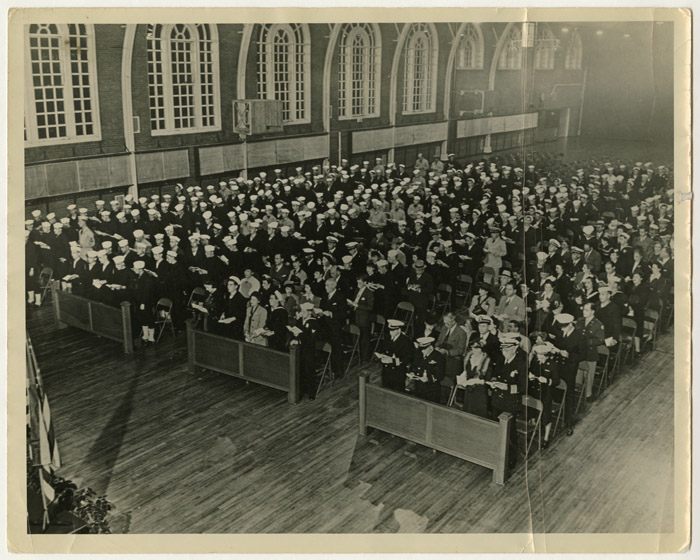 Description: Yom Kippur services at Great Lakes, Illinois Note: Text on back of photograph: Yom Kippur services at Great Lakes, Ill. I think 1942 or 1943. Rabbi Julius Mark was chaplain. Services held in drill hall, now Catholic chapel. Photographer: unknown Medium: black and white photograph Date: circa 1942 Persistent URL: Repository: American Jewish Historical Society Parent Collection: National Jewish Welfare Board Records Call Number: I-337 Rights Information: No known copyright restrictions; may be subject to third party rights. For more copyright information, click here. See more information about this image and others at CJH Digital Collections. To inquire about rights and permissions, or if you have a question regarding the collection to which the image belongs, please contact the Reference Department of the American Jewish Historical Society by email.